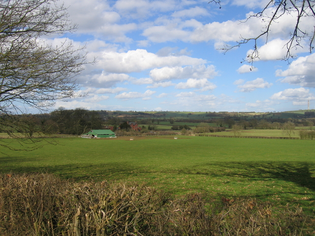 Fields Farm seen from the Welsh Road. Looking across the NE quadrant of the square towards Priors Marston in the distance and Charwelton communications tower at 68671on the hill at the extreme right. In the middle distance is Fields Farm. The Warwickshire - Northampton border, and the northern boundary of this square runs left to right along the hedgerow and through the middle of the farm buildings!